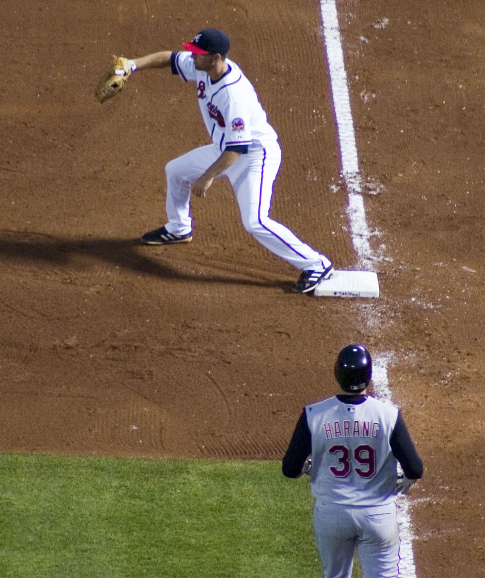 Photograph of a force out in baseball. Atlanta Braves first baseman Adam LaRoche forces Cincinnati Reds pitcher Aaron Harang out at first base.